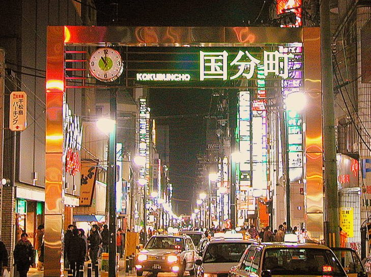 Kokubuncho-dori Avenue. Sendai, Japan